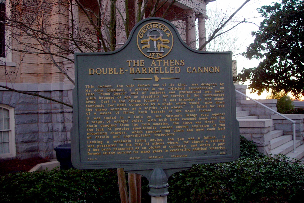 The plaque at the site of the double barreled cannon in Athens, Georgia, United States.